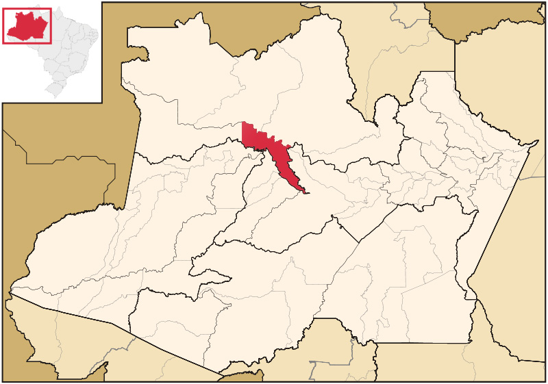 Map of Amazonas highlighting Maraã.